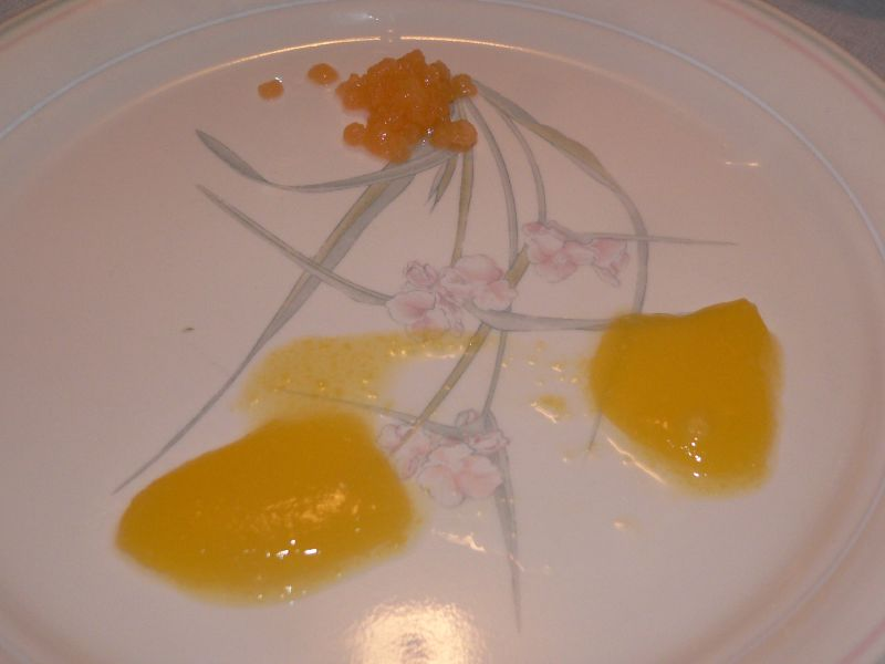 A pasta course featuring no pasta and prepared at the table I was worried how it would come out but I was pleasantly surprised. Created using a chemical reaction between sodium alginate and calcium chloride which cause liquids to form a skin, the ravioli and caviar held the taste of mango and cantaloupe very well and were such interesting food that the dish came out very well.